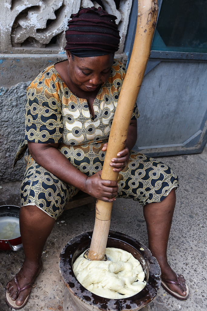 Preparing fufu in Accra, Ghana This is an image of food from Ghana